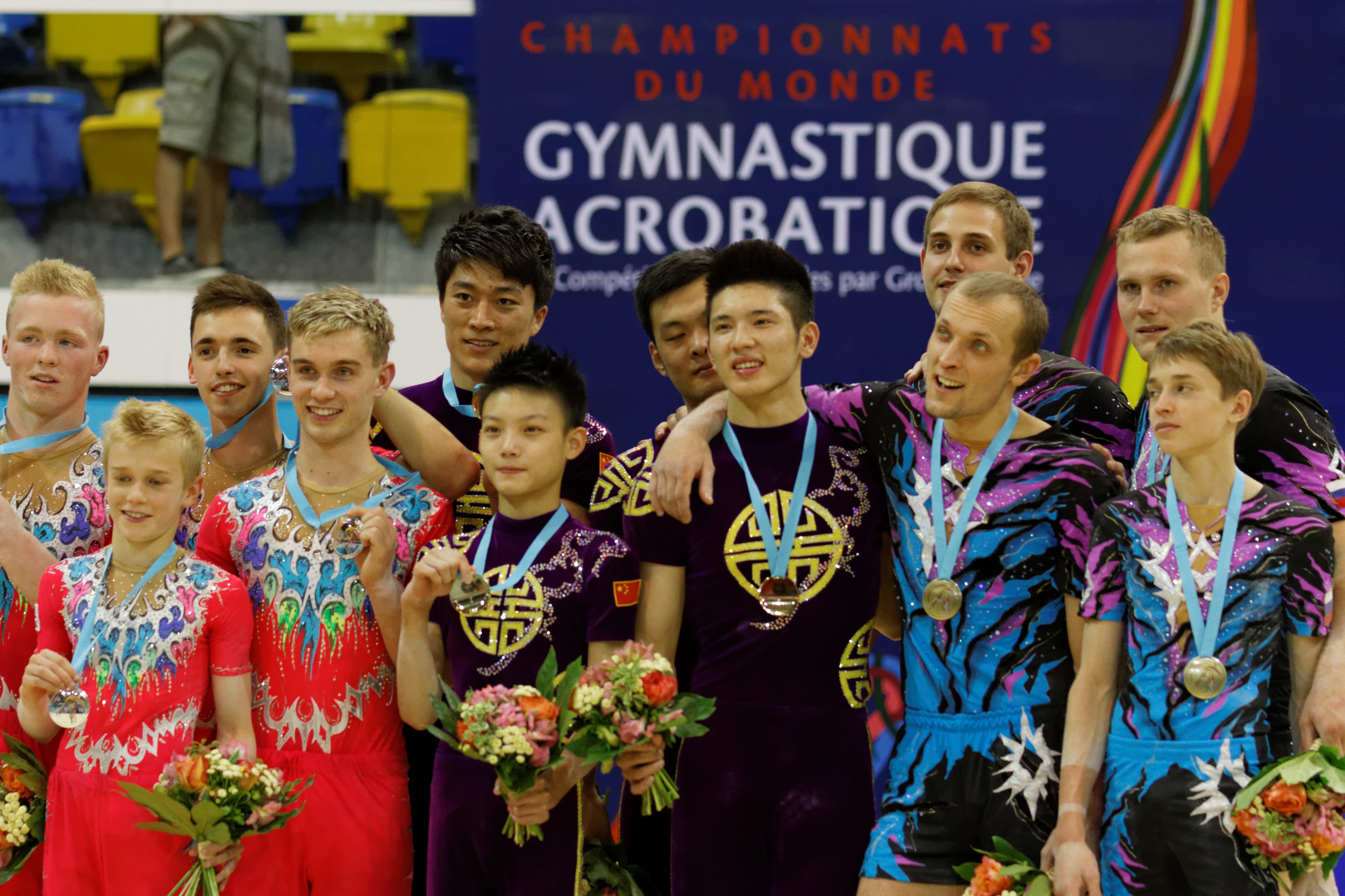 2014 Acrobatic Gymnastics World Championships, 10th-12 July, Levallois-Perret, France. Awarding ceremony.